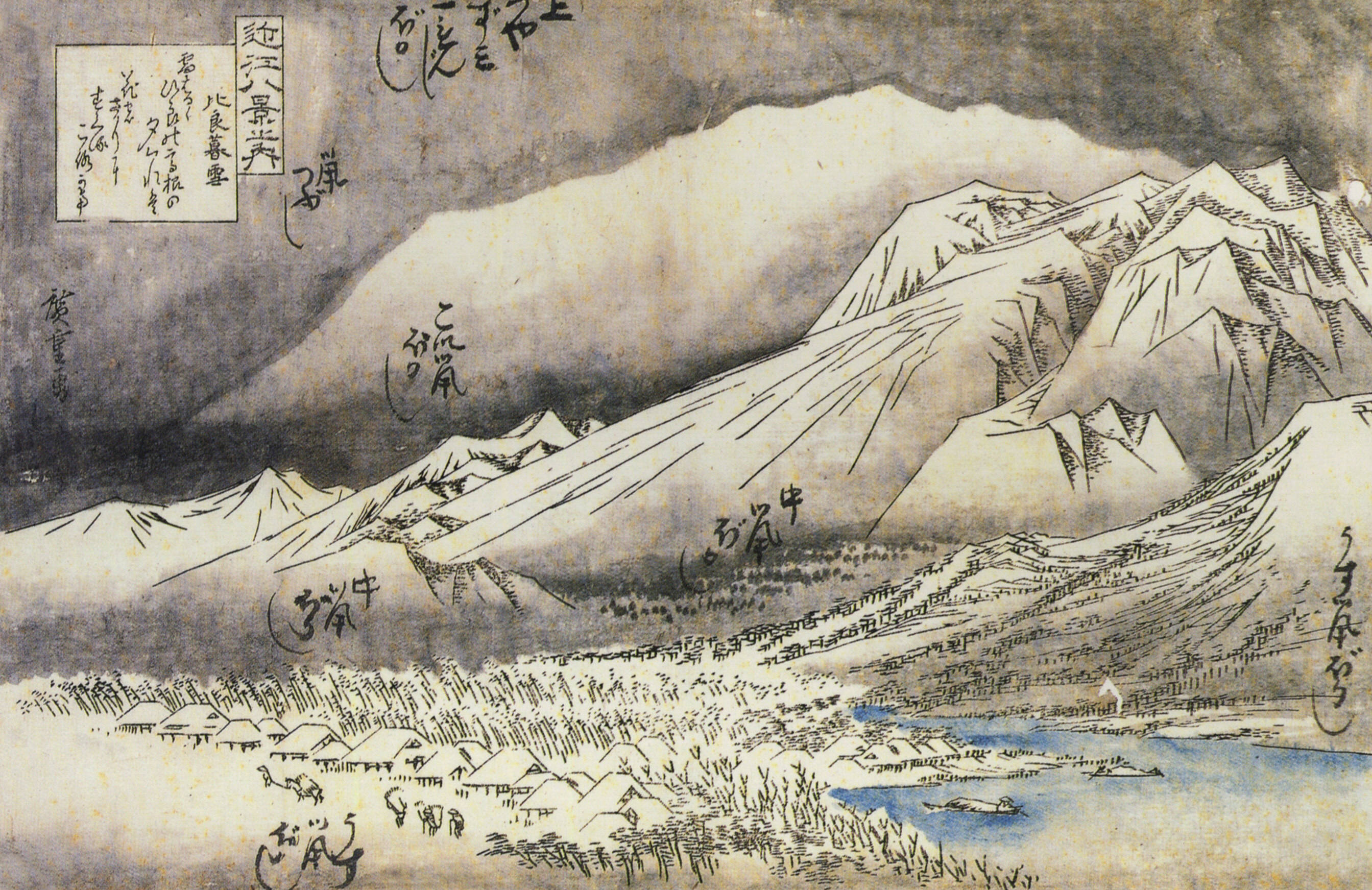 8 Views of Omi - #1. Evening Snow on Mount Hira